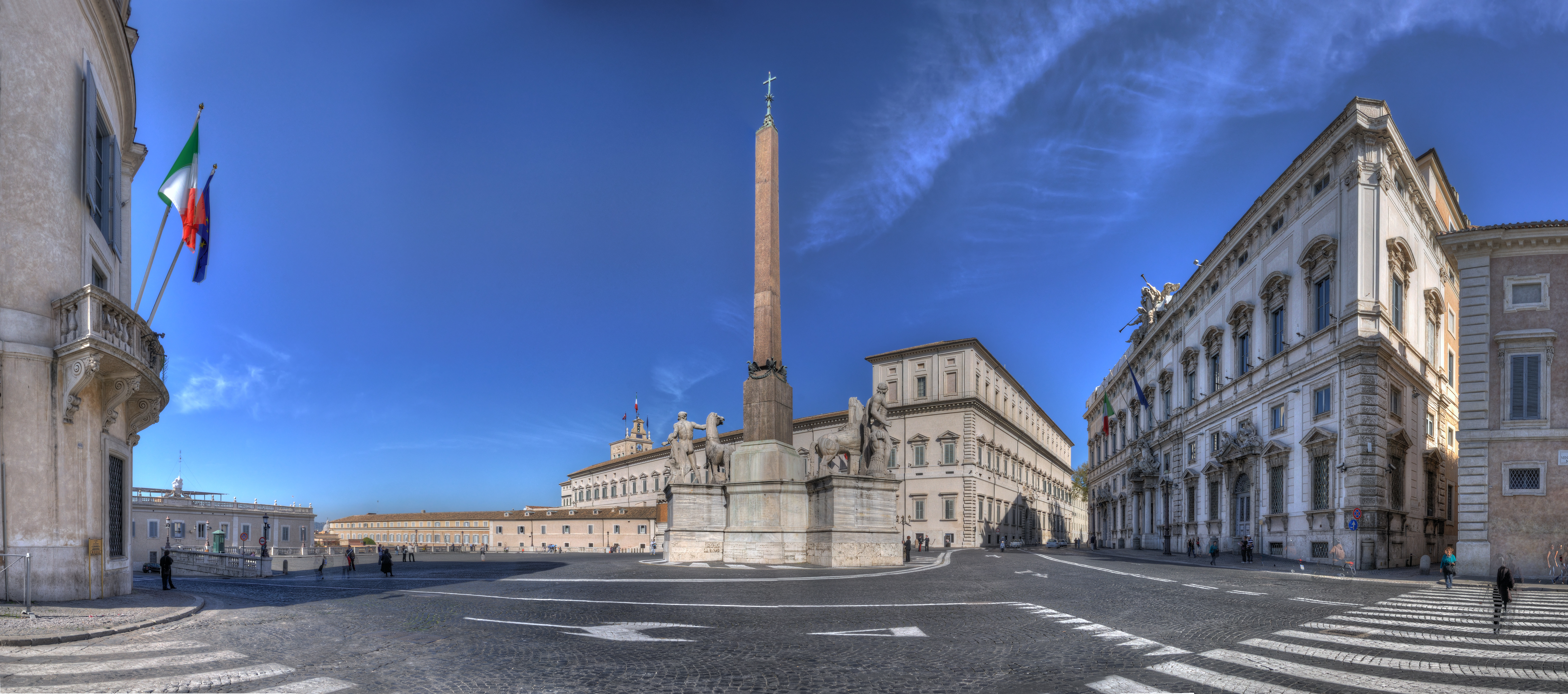 Piazza del Quirinale - Rome, Italy